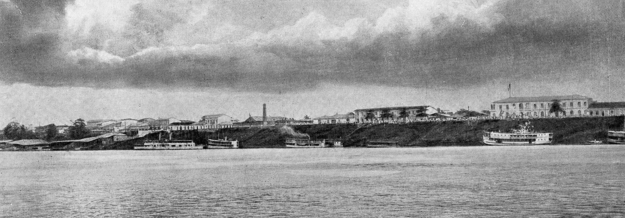 Iquitos